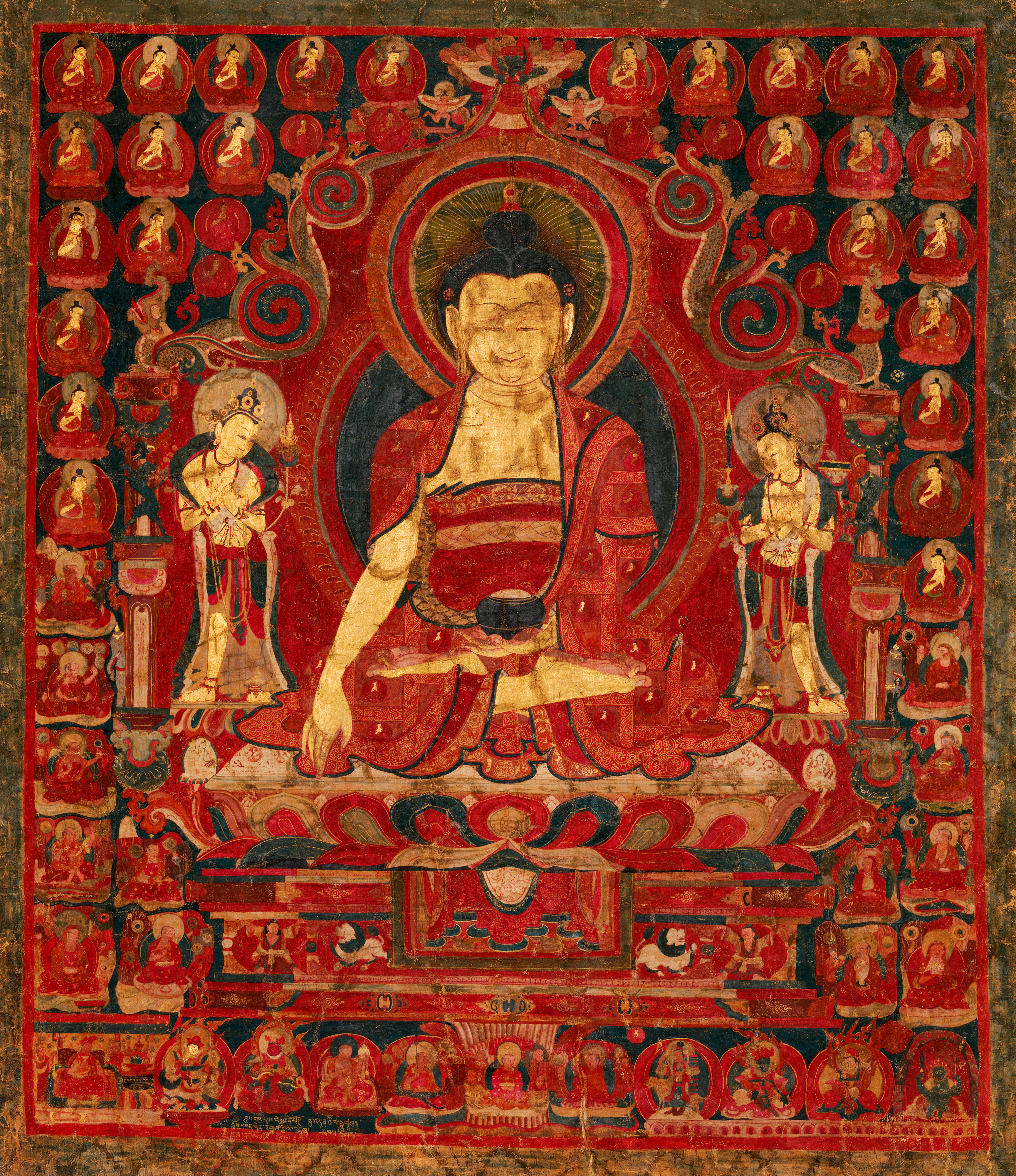 Buddha Shakyamuni as Lord of the Munis. Western Tibet (Guge). Distemper on cloth, Image: 31 1/4 x 26 3/4 in. (79.4 x 67.9 cm). Framed: 41 x 33 in. (104.1 x 83.8 cm). Buddha Shakyamuni holds a begging bowl and gestures to the earth to witness his awakening. His golden complexion evokes his transcendent nature, and the patchwork robe indicates his non-attachment. He meditates upon a radiating lotus and is attended by the adoring figures of the bodhisattvas Maitreya (holding a flask) and Manjushri (a sword). Shakyamuni’s status as a cosmic Buddha is indicated by the rows of Buddhas that occupy the upper registers and the sixteen arhats that surround the lotus throne. In the lowest register are three seated monks flanked by the four guardian kings (lokapala). At lower left sits the officiating lama, likely the patron of this painting named in the inscription as Lobzang Dondrup. Stylistically, this western Tibetan work may be associated with Tsaparang, Tholing, and Tabo monasteries.